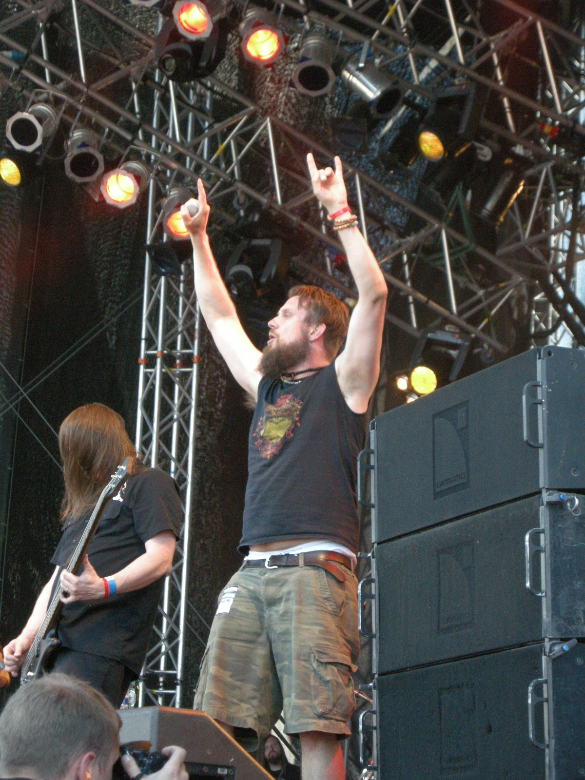 Peter Dolving, singer of Swedish thrash metal band The Haunted, at Metaltown 2009.